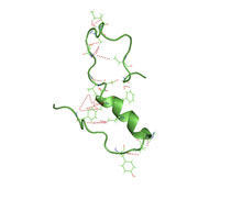 Structure of amyloid beta 1-40 created from pdb file 2lfm (public database) showing long range NOE constraints in red